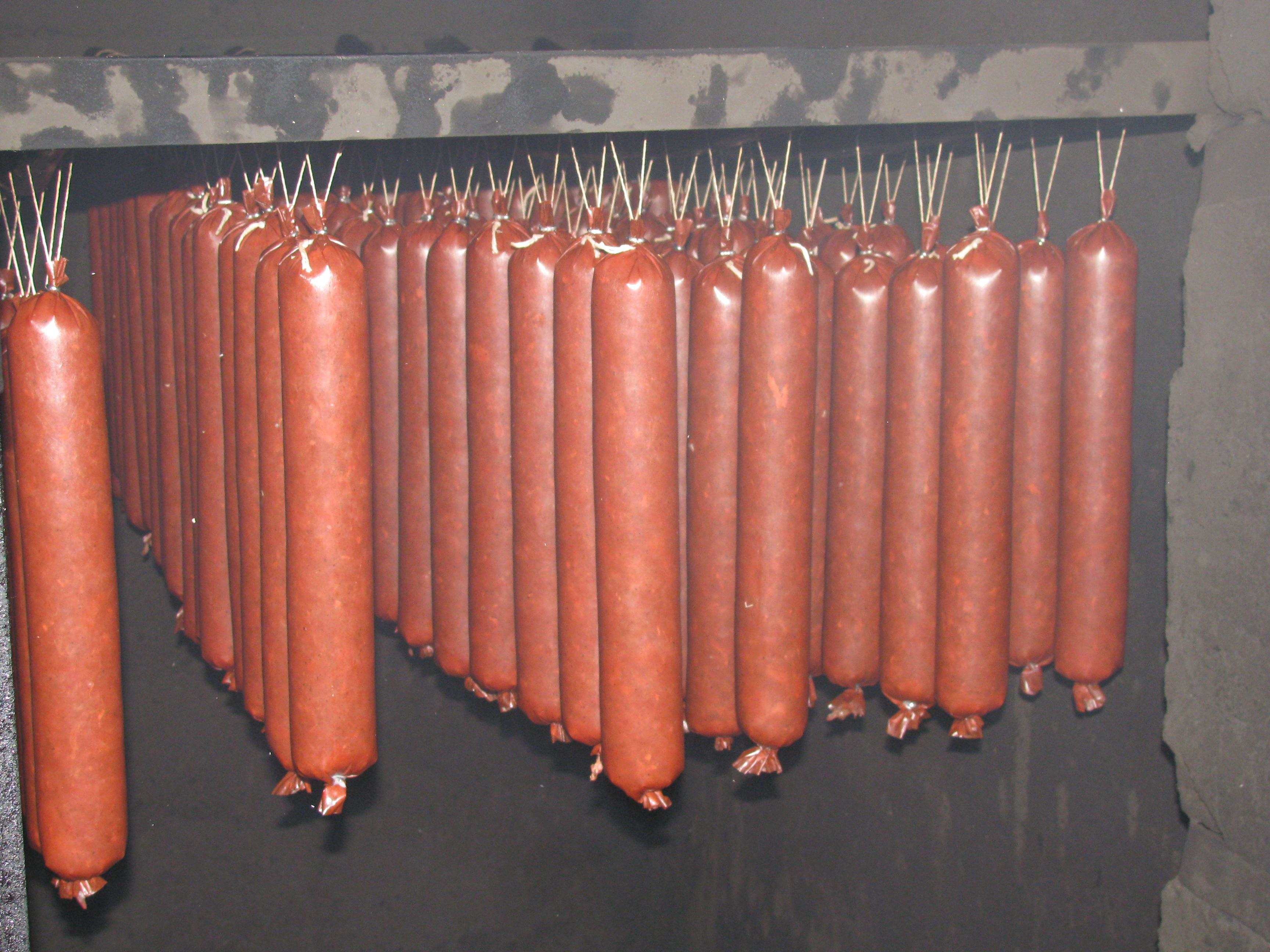 Ukrainian sausages "Drogobytska" in smoking chamber